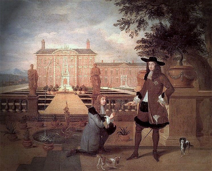 King Charles II, receiving gift of a pineapple from the Royal Gardener, John Rose.